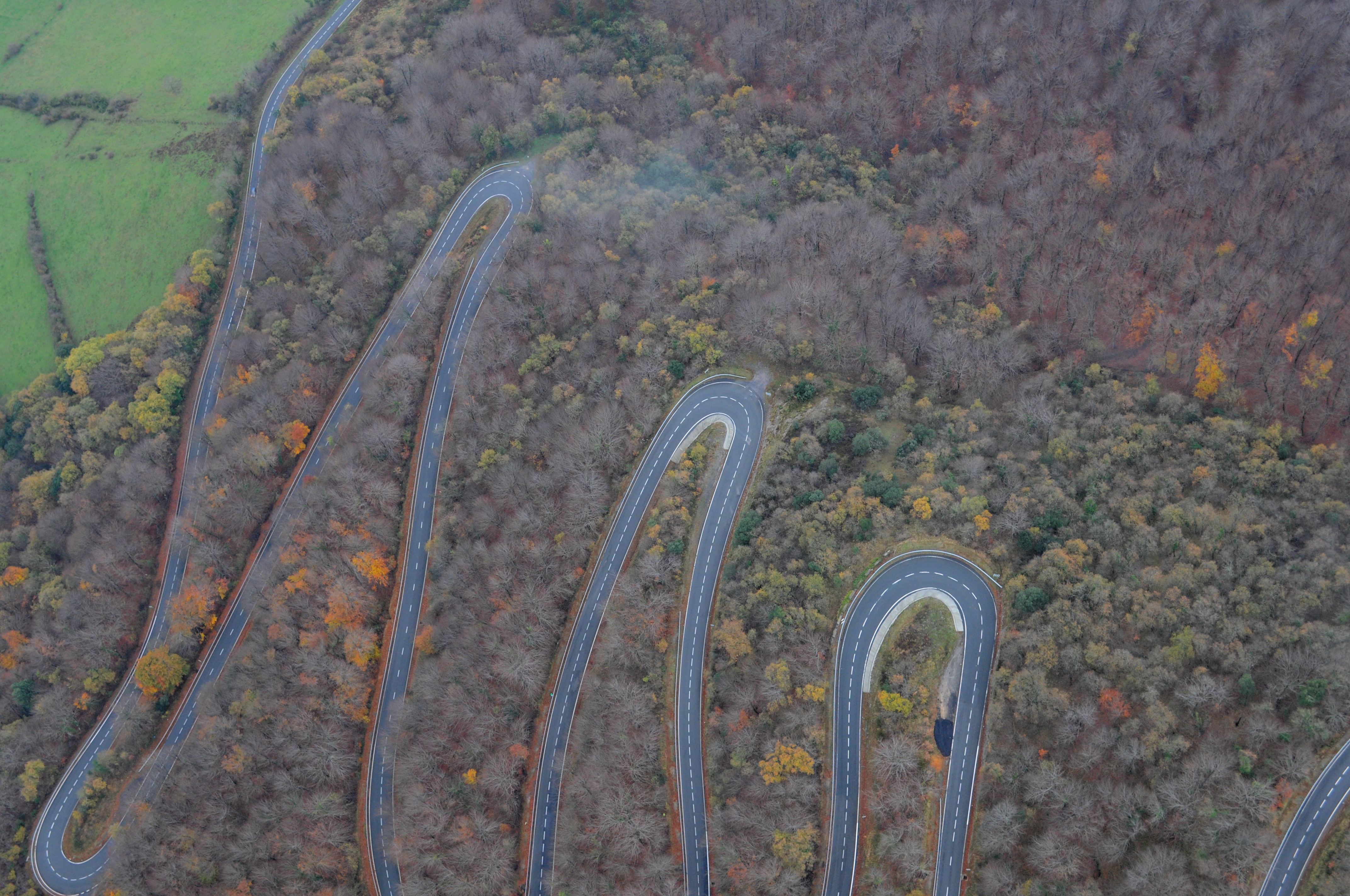 The road of the Orduña mountain pass (Bizkaia/Araba). Aerial view.